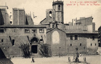 Sant Pere de les Puel·les church, Barcelona, before 1909 fire and 1911 restauration. Postcard dated about 1905.